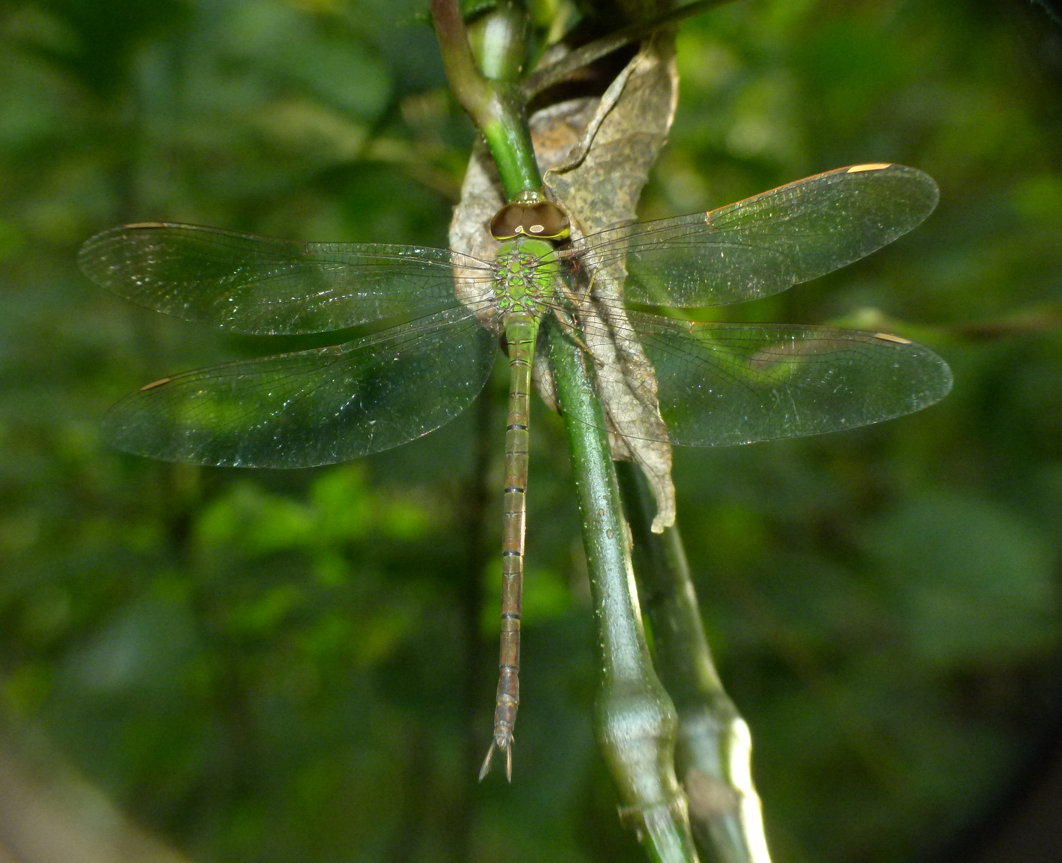 Dragonfly - Gynacantha bayadera - from the Western Ghats, Wayanad